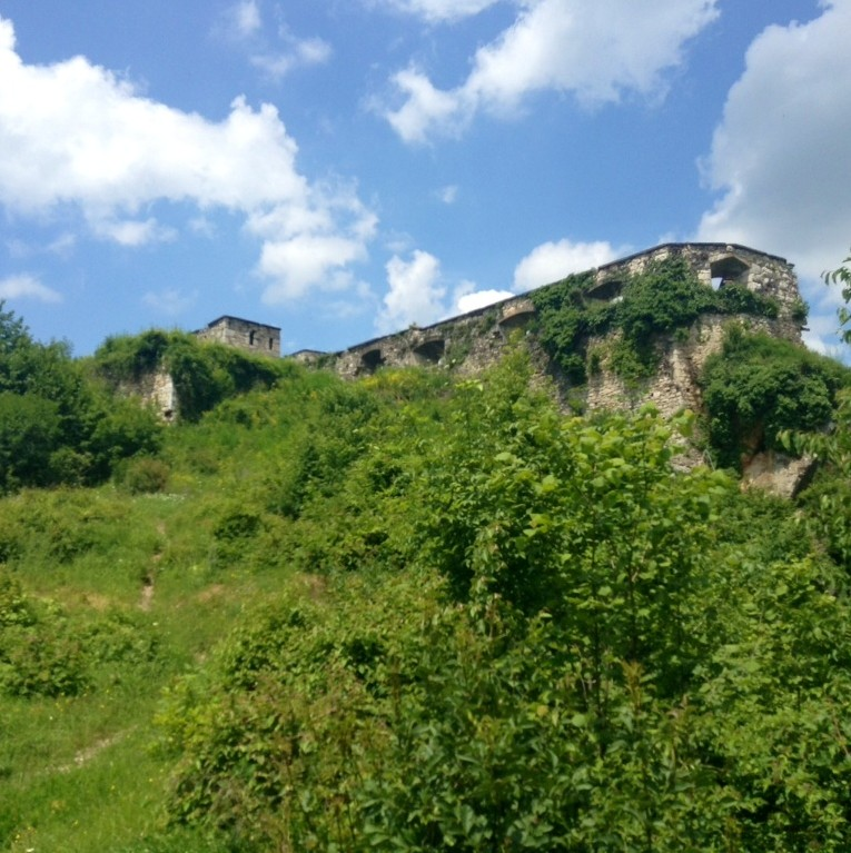 Zvornik fortress (Kula grad), 3 June 2014